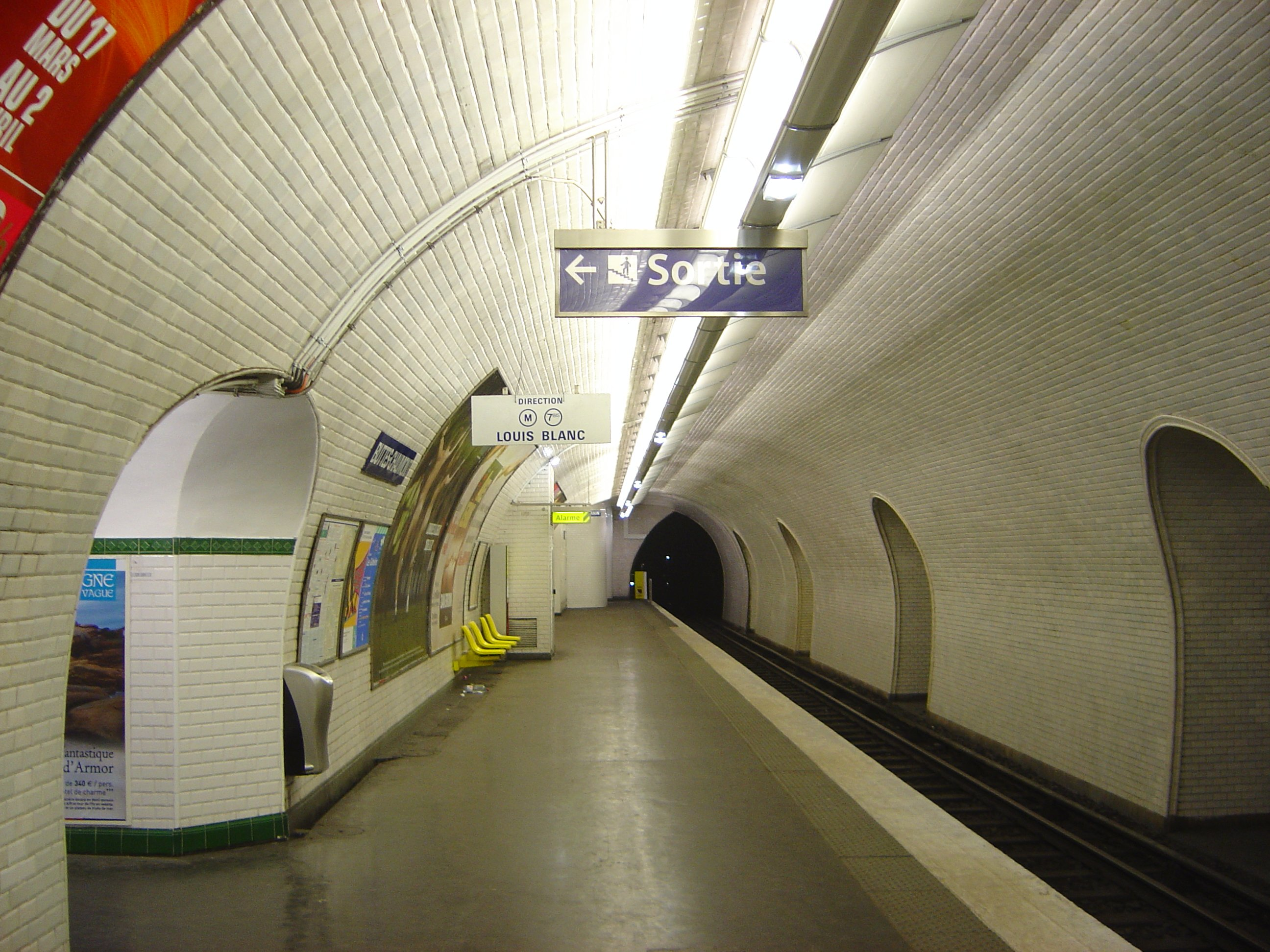 Buttes-Chaumont station of the Paris Metro, line 7bis, direction Louis Blanc